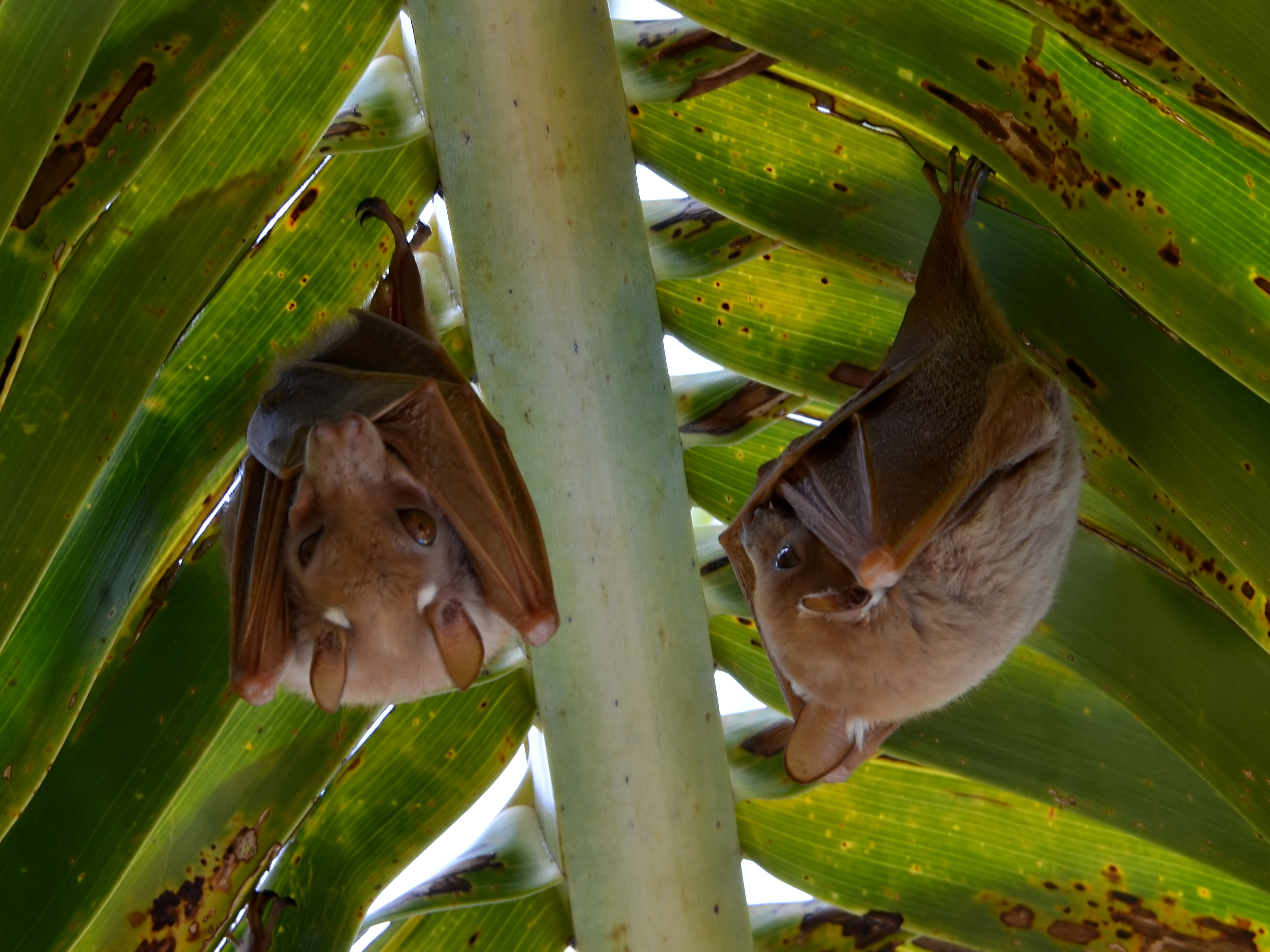 Wahlberg's Epauletted Fruit Bat at Lake Malawi National Park. Cape Maclear, Malawi.